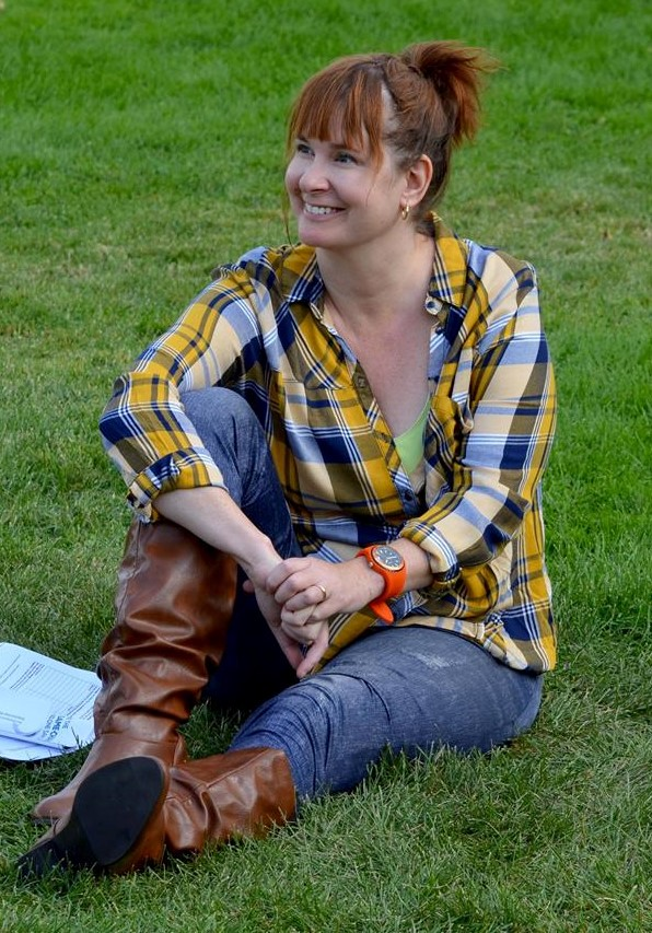 Dr. Cynthia Ross Friedman at the Kamloops and District Labour Day Picnic on Sept. 7, 2015